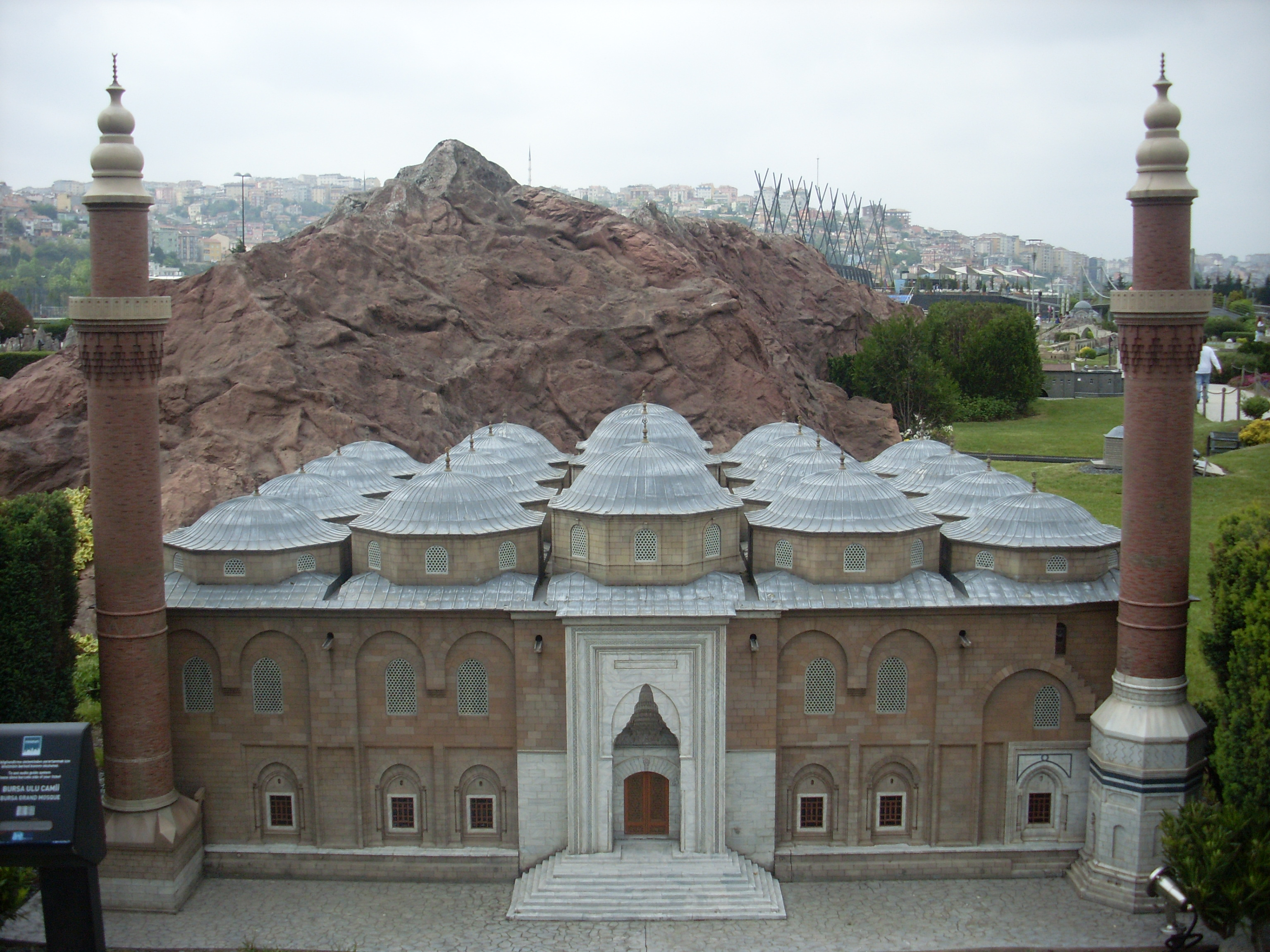 Model of Bursa Ulu Cami - Bursa Grand Mosque — in Miniaturk, Turkey.